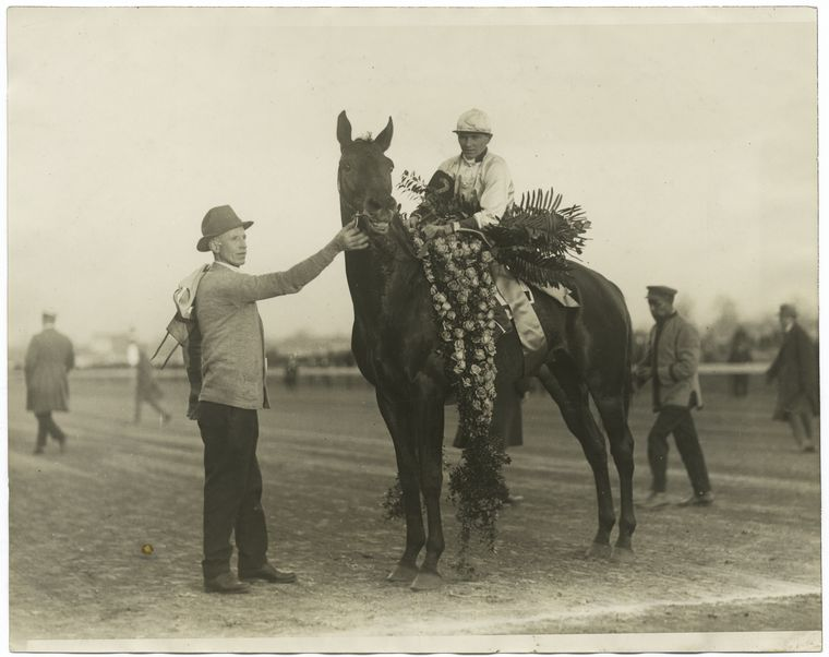 Zev, circa 1922, with jockey Earl Sande